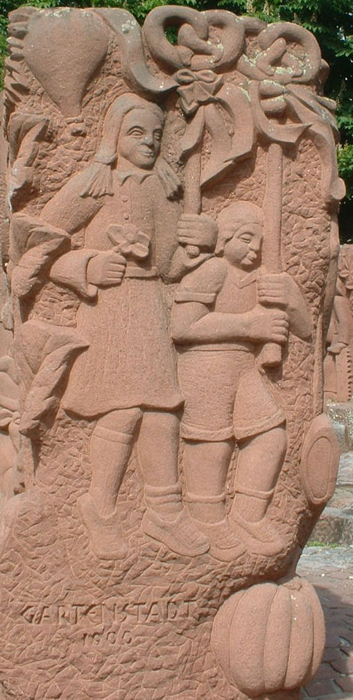 view of Ludwigshafen, Germany